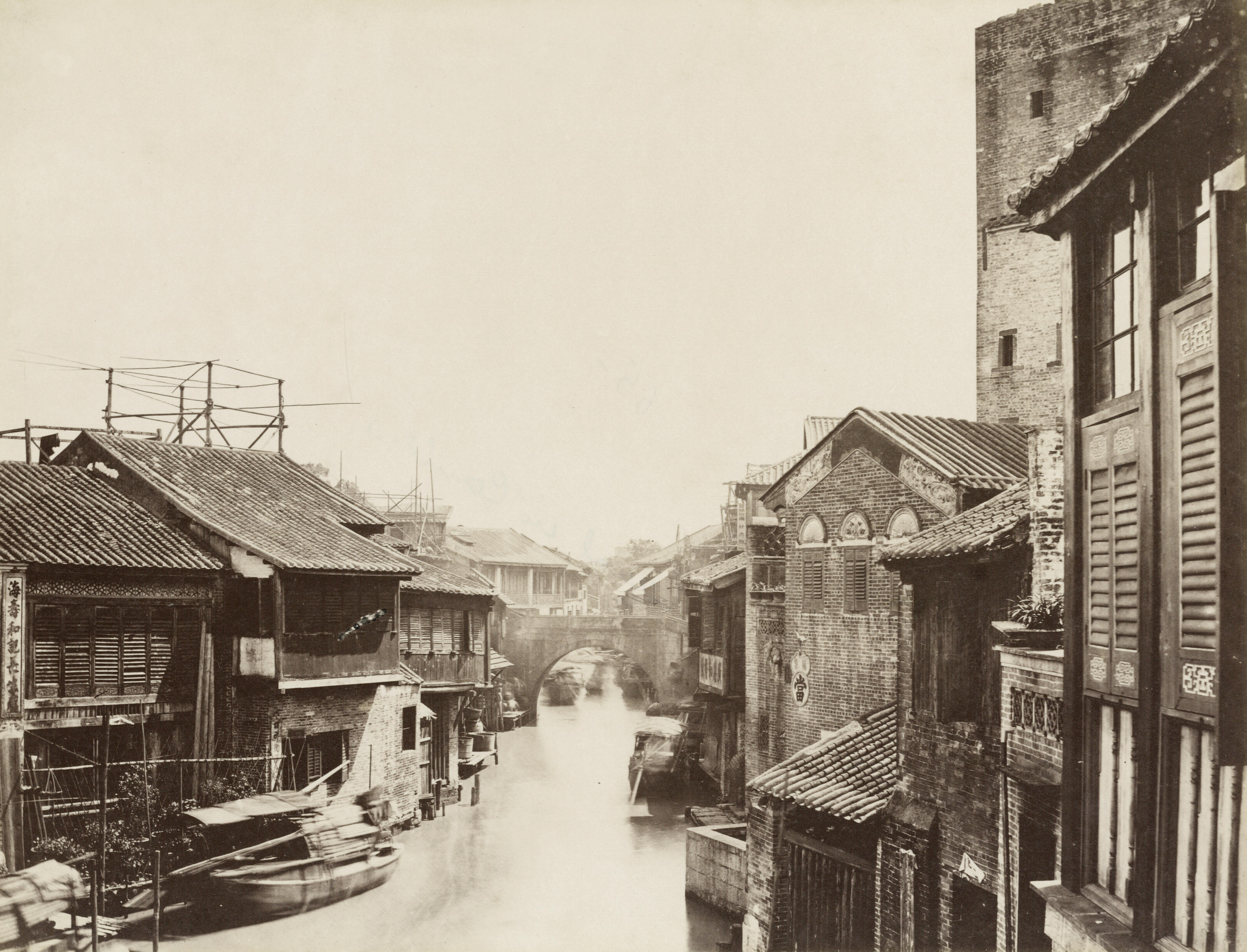 a bridge in Honam, Canton, Kwangtung in 1860 粵語: 廣州河南環珠橋。攝影師係Lai Afong（譯作賴阿芳或黎阿芳）。